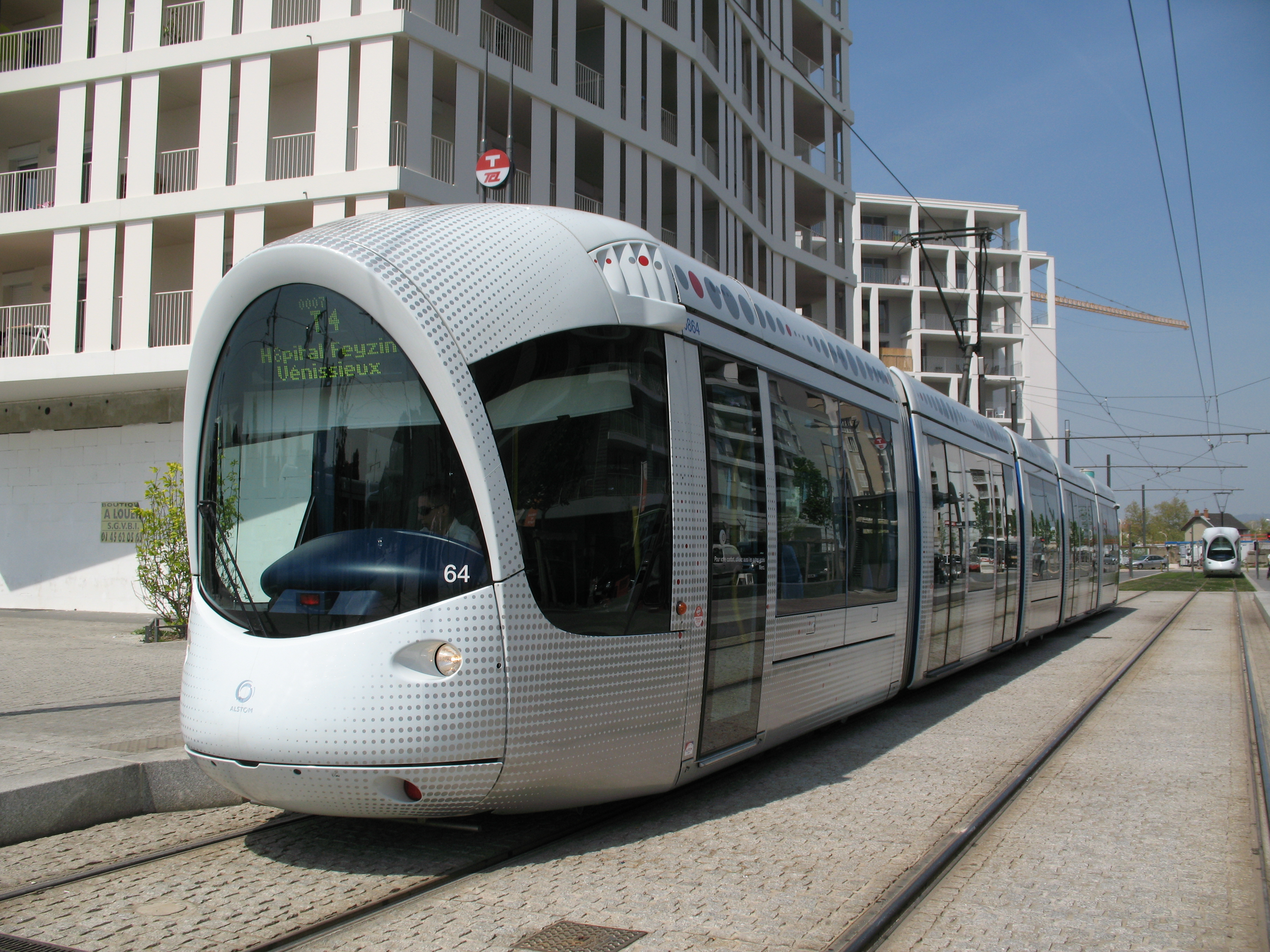 Alstom Citadis tramway unit at Jet d'Eau Mendès France station on T4 line of Lyon transportation system.